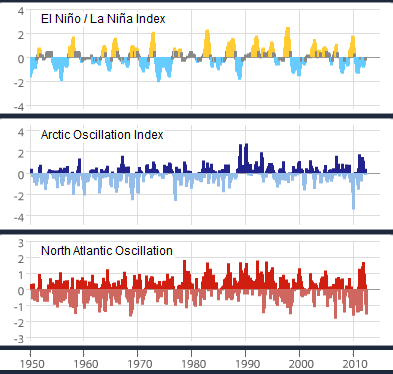 This image shows three examples of internal climate variability between 1950 and 2012: the El Niño–Southern oscillation, the Arctic oscillation, and the North Atlantic oscillation (see the Intergovernmental Panel on Climate Change (IPCC, 2001) for a definition of "internal" climate variability). The El Niño – Southern Oscillation (ENSO) is a recurring climate pattern involving changes in the temperature of waters in the central and eastern tropical Pacific Ocean (NOAA Climate Program Office, 2009a). The Arctic Oscillation (AO) refers to an atmospheric circulation pattern over the mid-to-high latitudes of the Northern Hemisphere (NOAA Climate Program Office, 2009b). The North Atlantic Oscillation (or NAO) is a prominent pattern of climate variability that has a strong influence on weather over north-eastern North America, Greenland, and Europe (NOAA Climate Program Office, 2009c). The top graph shows the ENSO, the middle graph the AO, and the bottom graph the NAO. In the top graph, the ENSO cycle is measured using the Oceanic Niño Index or ONI (for details, see NOAA Climate Program Office, 2009a). In the middle graph, the AO is measured using the Arctic Oscillation Index (for details, see NOAA Climate Program Office, 2009b). In the bottom graph, the NAO is measured using the North Atlantic Oscillation Index (for details, see NOAA Climate Program Office, 2009c). References: IPCC, 2001: Appendix I - Glossary: Climate variability, in: Climate Change 2001: The Scientific Basis. Contribution of Working Group I to the IPCC Third Assessment Report (J.T. Houghton, et al., (eds)). Cambridge University Press; NOAA Climate Program Office, August 30, 2009a: ClimateWatch Magazine » Climate Variability: Oceanic Niño Index. NOAA; NOAA Climate Program Office, August 30, 2009b: ClimateWatch Magazine » Climate Variability: Arctic Oscillation. NOAA; NOAA Climate Program Office, August 30, 2009c: ClimateWatch Magazine » Climate Variability: North Atlantic Oscillation. NOAA.